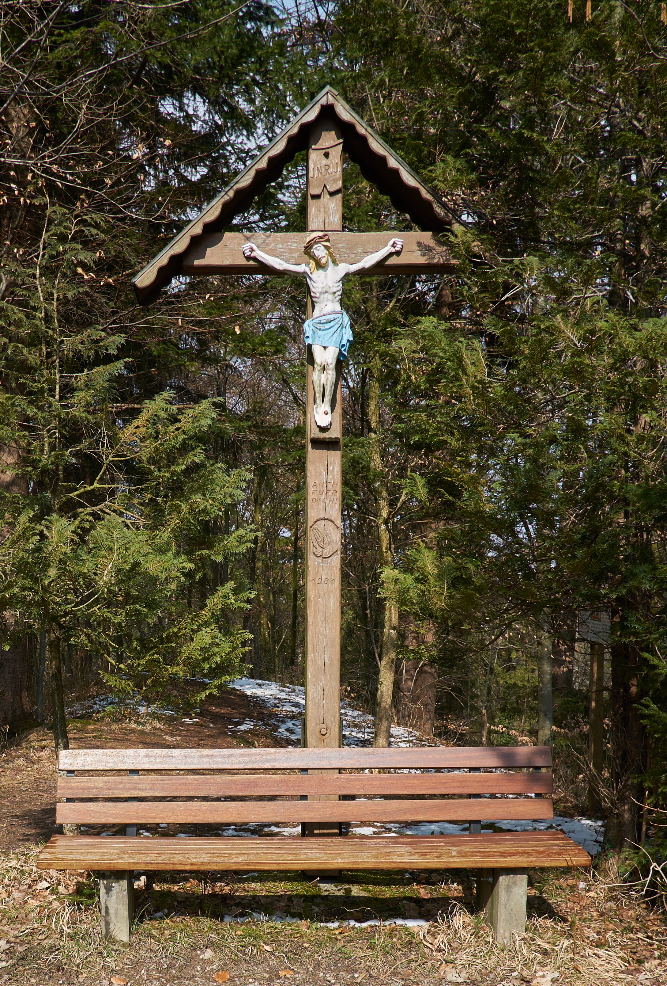 Place of the vanished castle Burg Schmalegg, Ravensburg-Schmalegg, county Ravensburg, Baden Wurttemberg, Germany